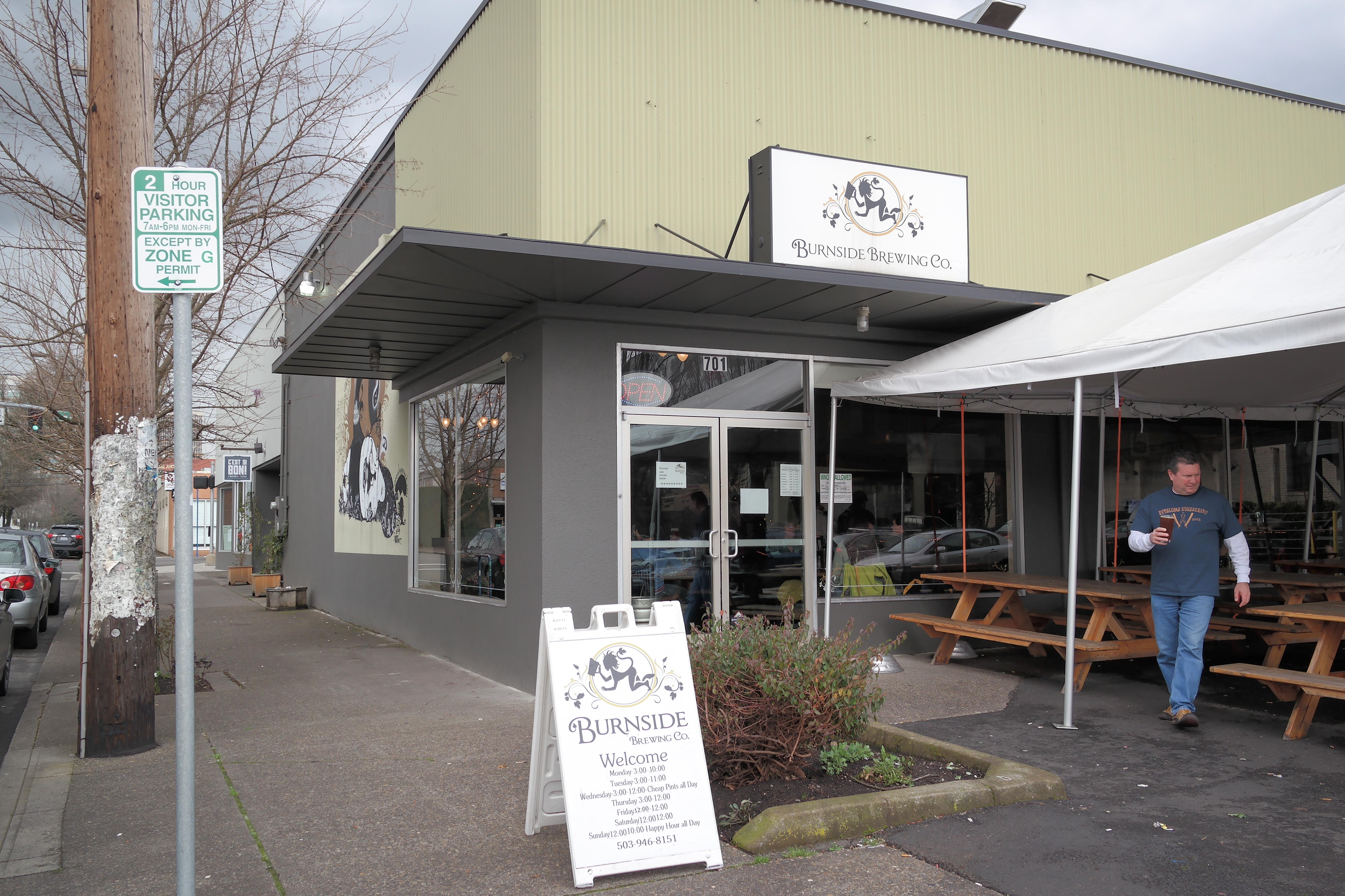 Outside Burnside Brewing in Portland, Oregon